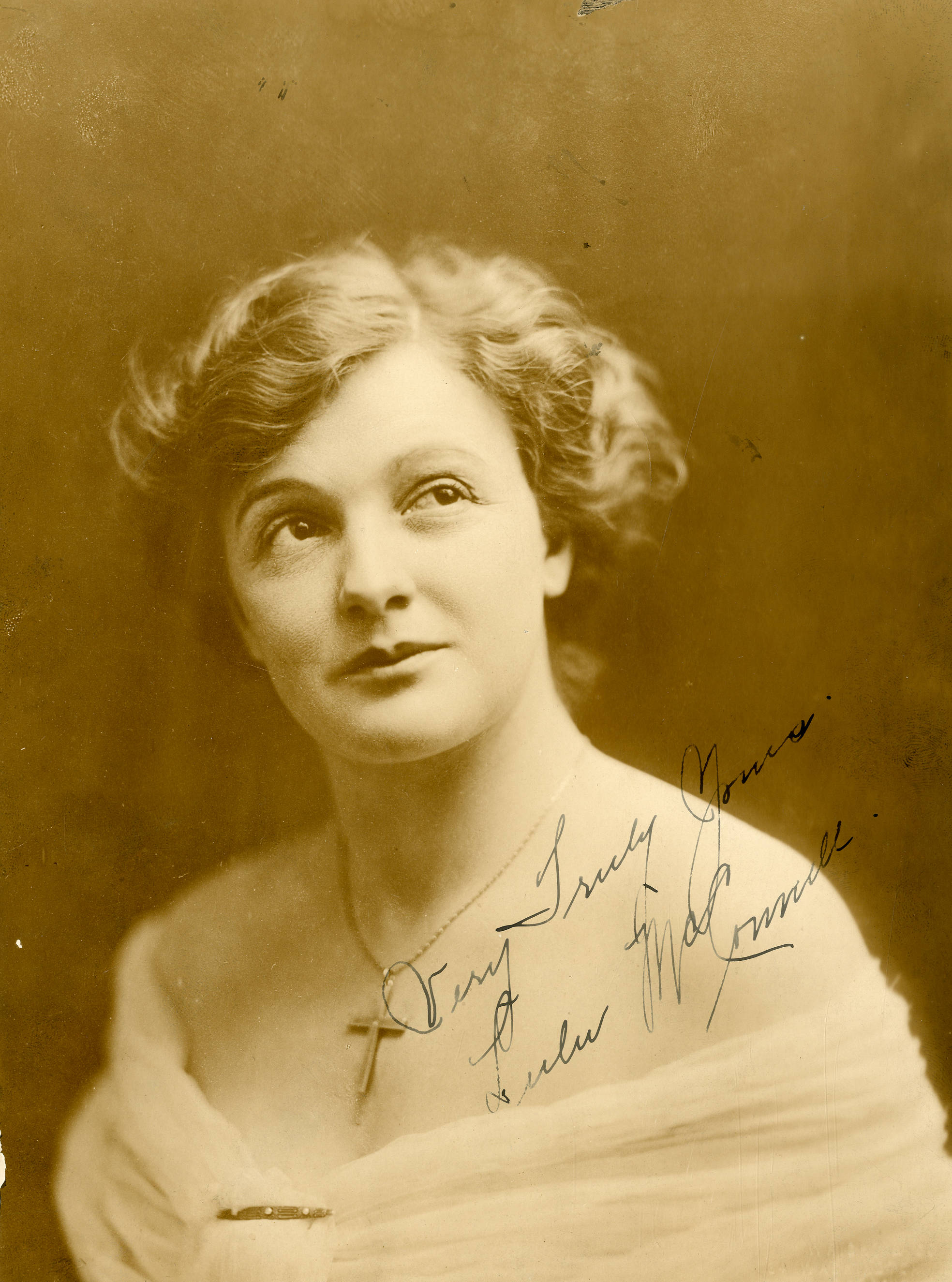 Lulu McConnell, vaudeville actress Subjects: vaudeville